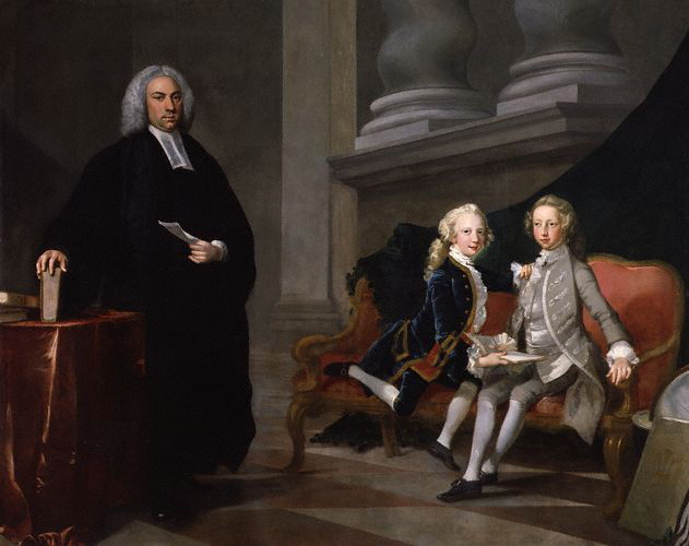 The future George III of the United Kingdom (right), pictured with his brother Prince Edward, Duke of York and Albany, and their tutor, Francis Ayscough, Dean of Bristol. The Prince of Wales sits regally, as befits the heir to the throne. Near his left hand is a globe and a volume bearing his crest, the Prince of Wales feathers. His brother symbolically serves him by offering him a book (albeit in a playful and distracted manner).